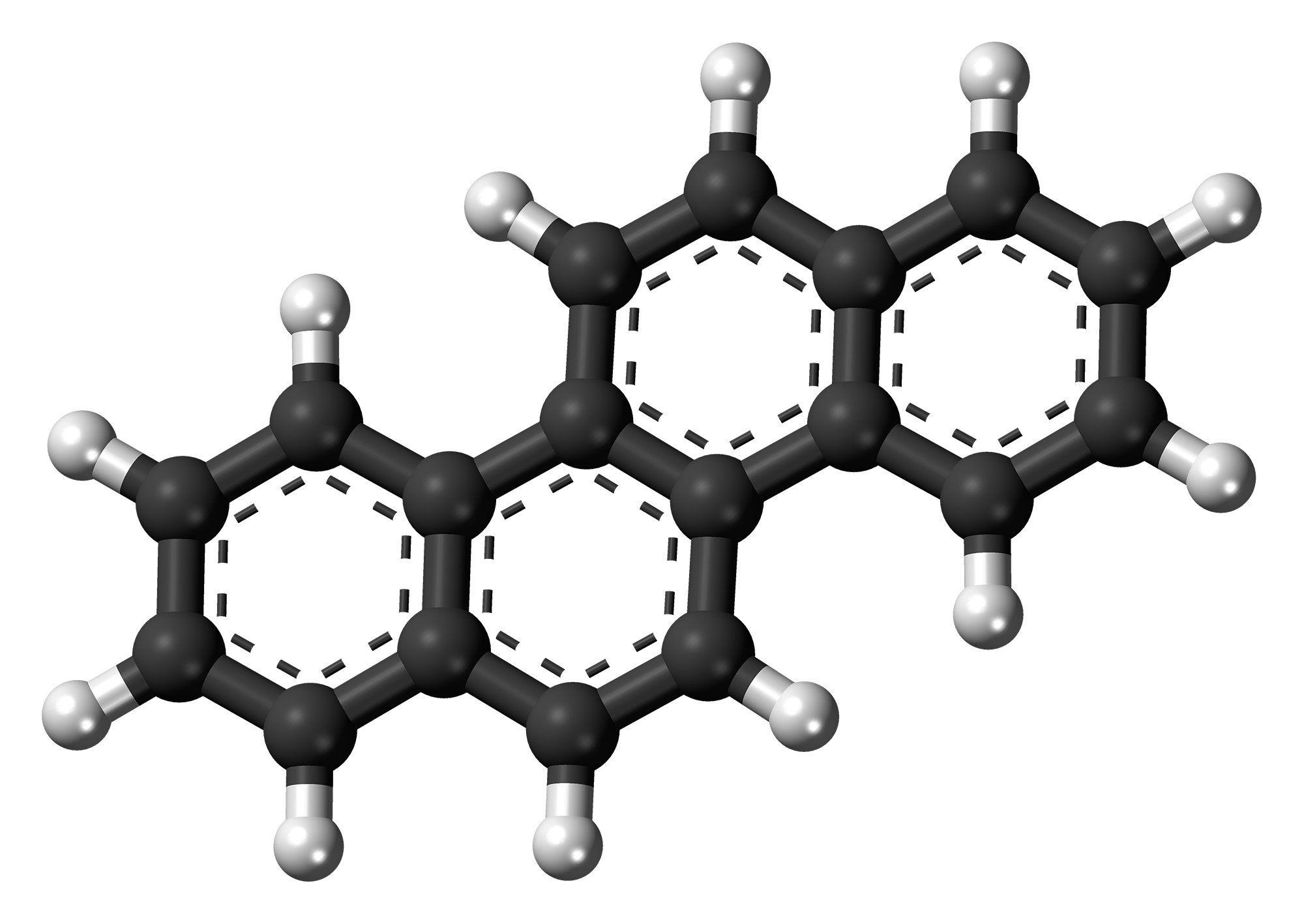 Ball-and-stick model of the chrysene molecule, a polycyclic aromatic hydrocarbon. Color code: Carbon, C: black Hydrogen, H: white